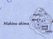 Map of Nishino-shima in 2006.